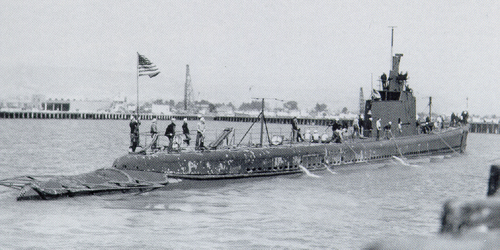 USS Wahoo (SS 238) from US government source, public domain image